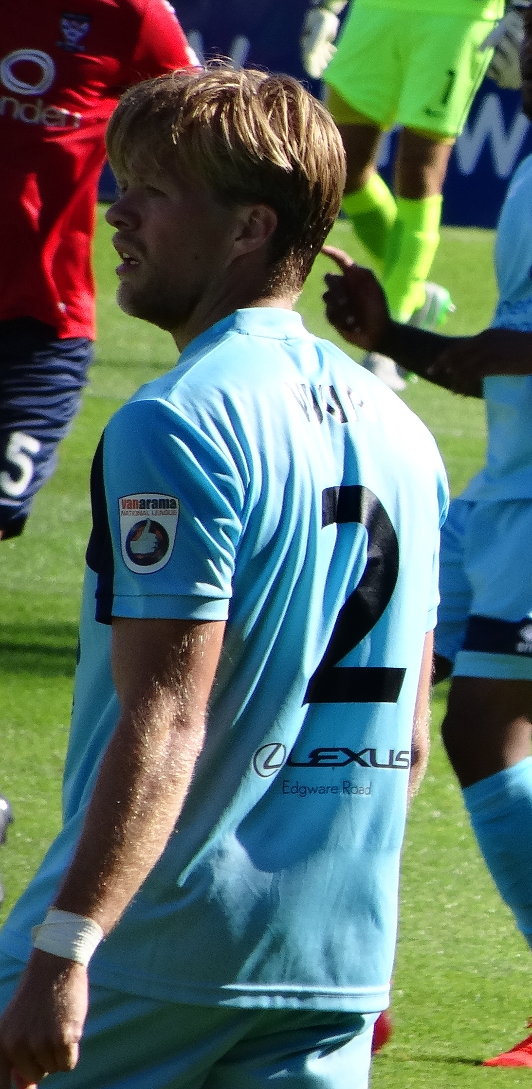 Ben Nunn playing for Boreham Wood against York City at Bootham Crescent, York on 13 August 2016